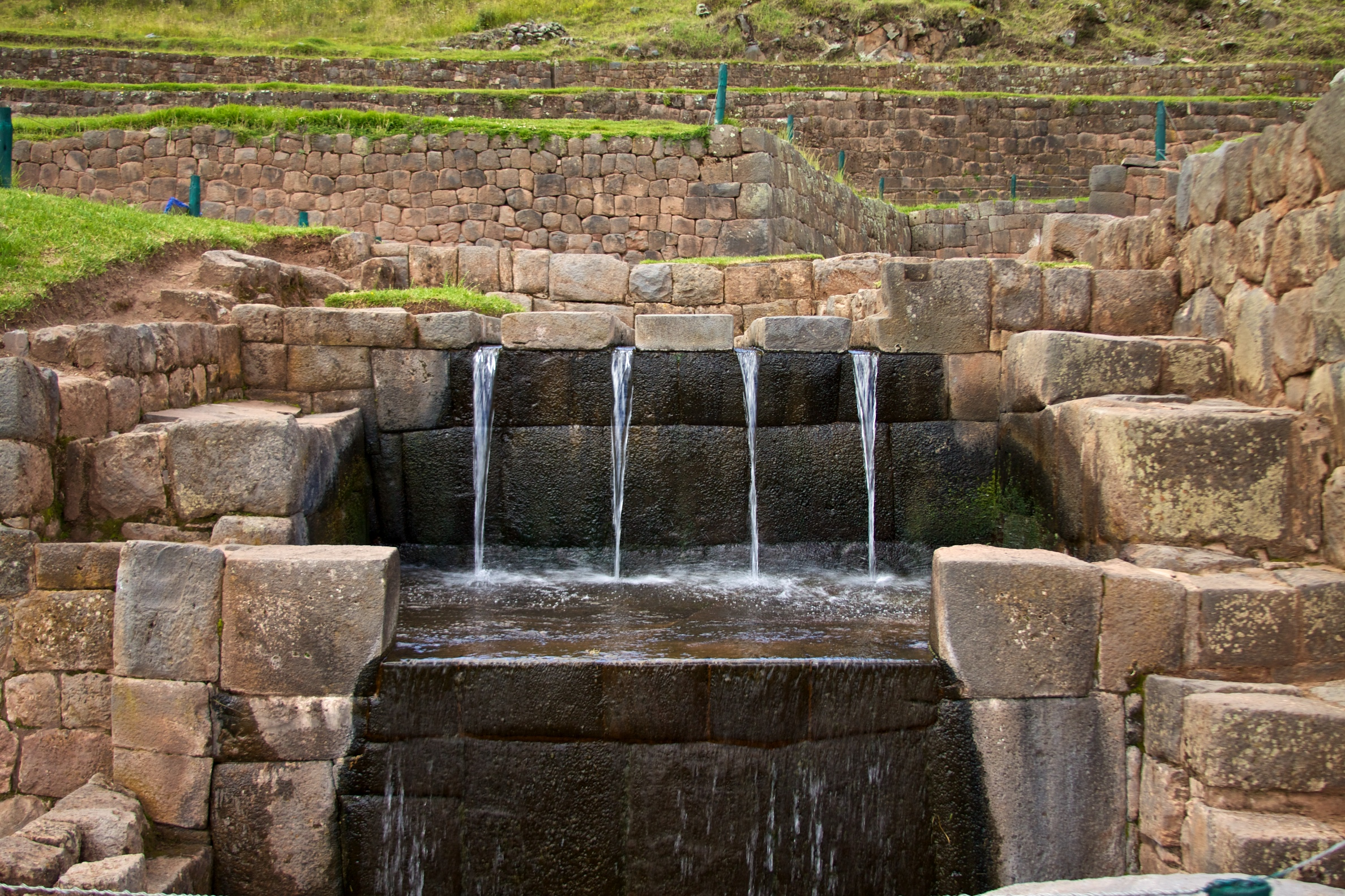 What makes Tipón an interesting Incan site is the sopisticated water distribution through the agriculture terraces, water running through stone-lined channels and out spouts to different levels and parts.